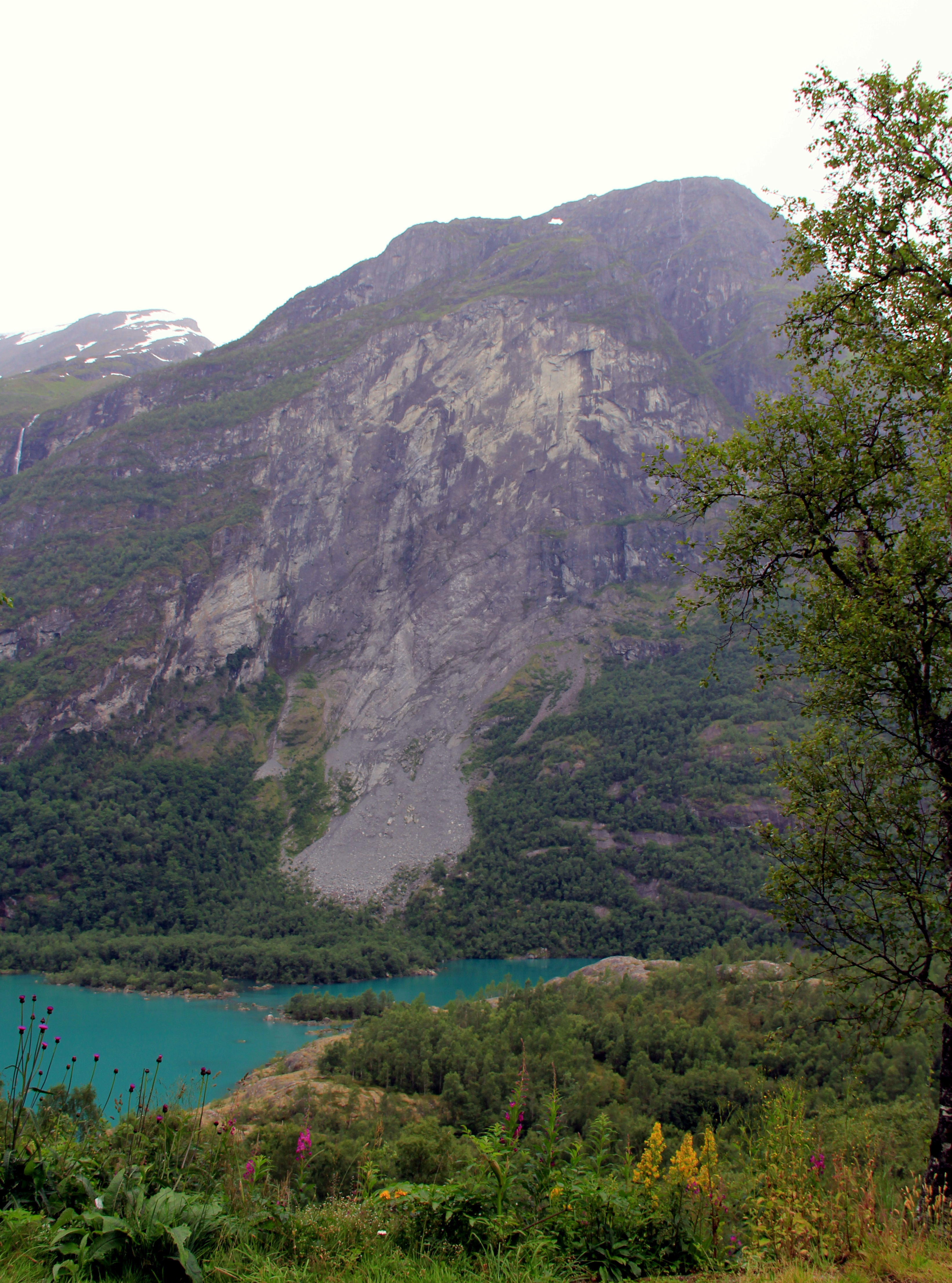 Ramnefjellet, Loen, Stryn, Norway